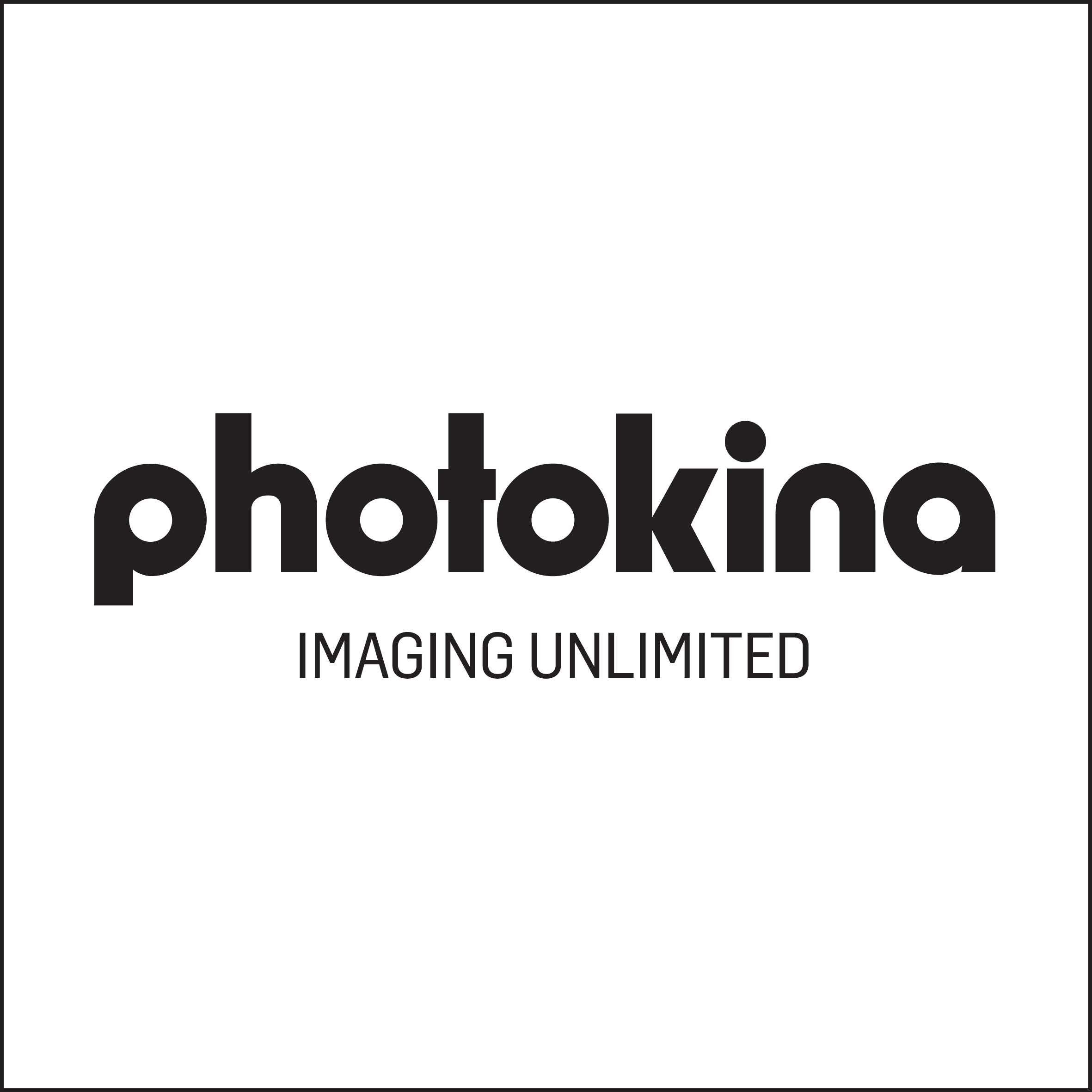 Official logo of photokina